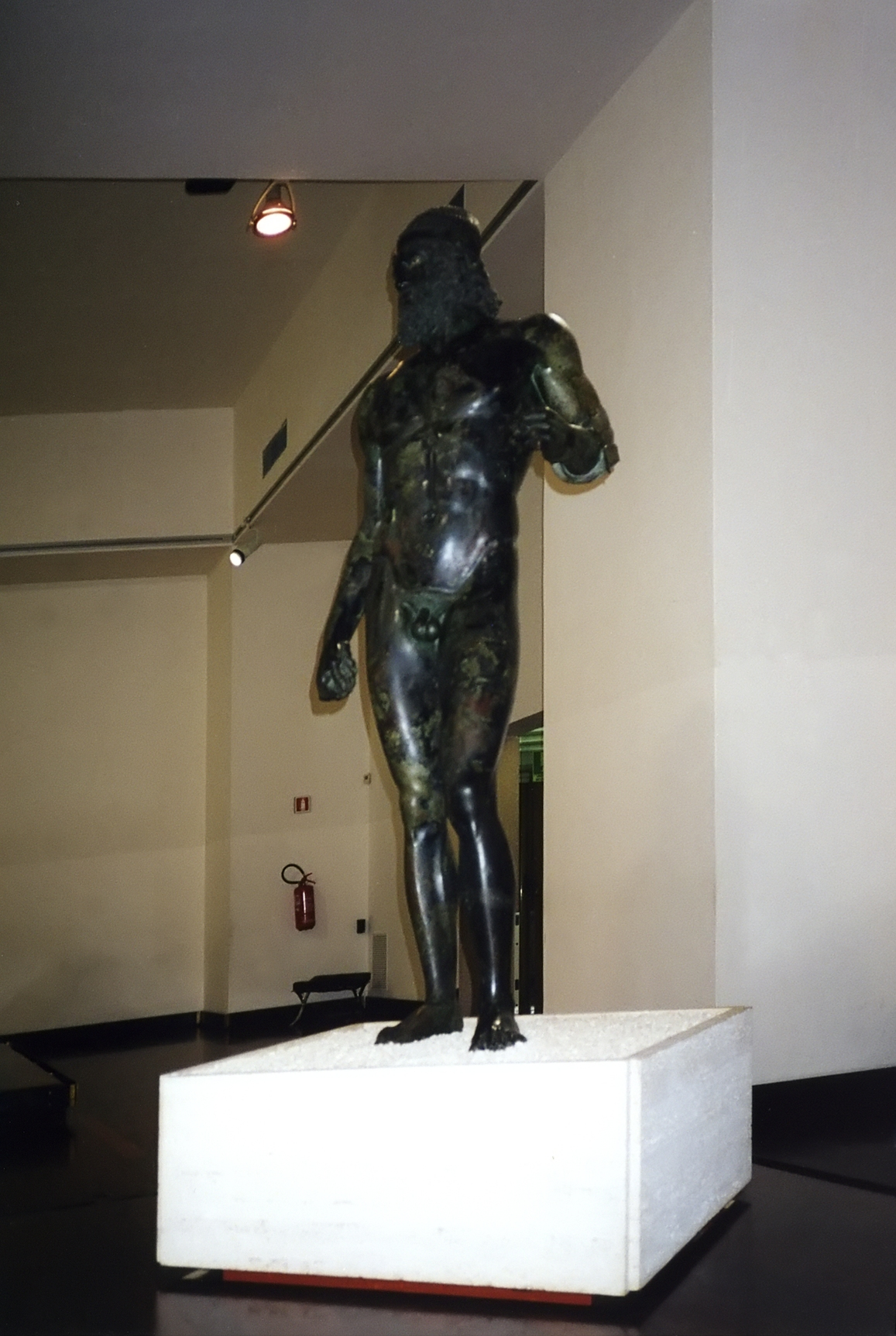 In the year 1972 two bronze statues from greece dating back to 460 until 430 b.c. were found on the bottom of the Ionic Sea near Riace Marina in Calabria in Italy. Since 1981 they are on view in the Museo Nazionale Di Reggio Calabria. The statues are put up on earthquake-proof platforms.